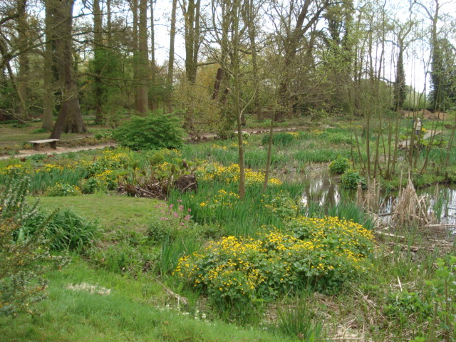 Bog garden at Coughton Court Marsh marigolds provide spring colour. The wood behind skirts the river Arrow.